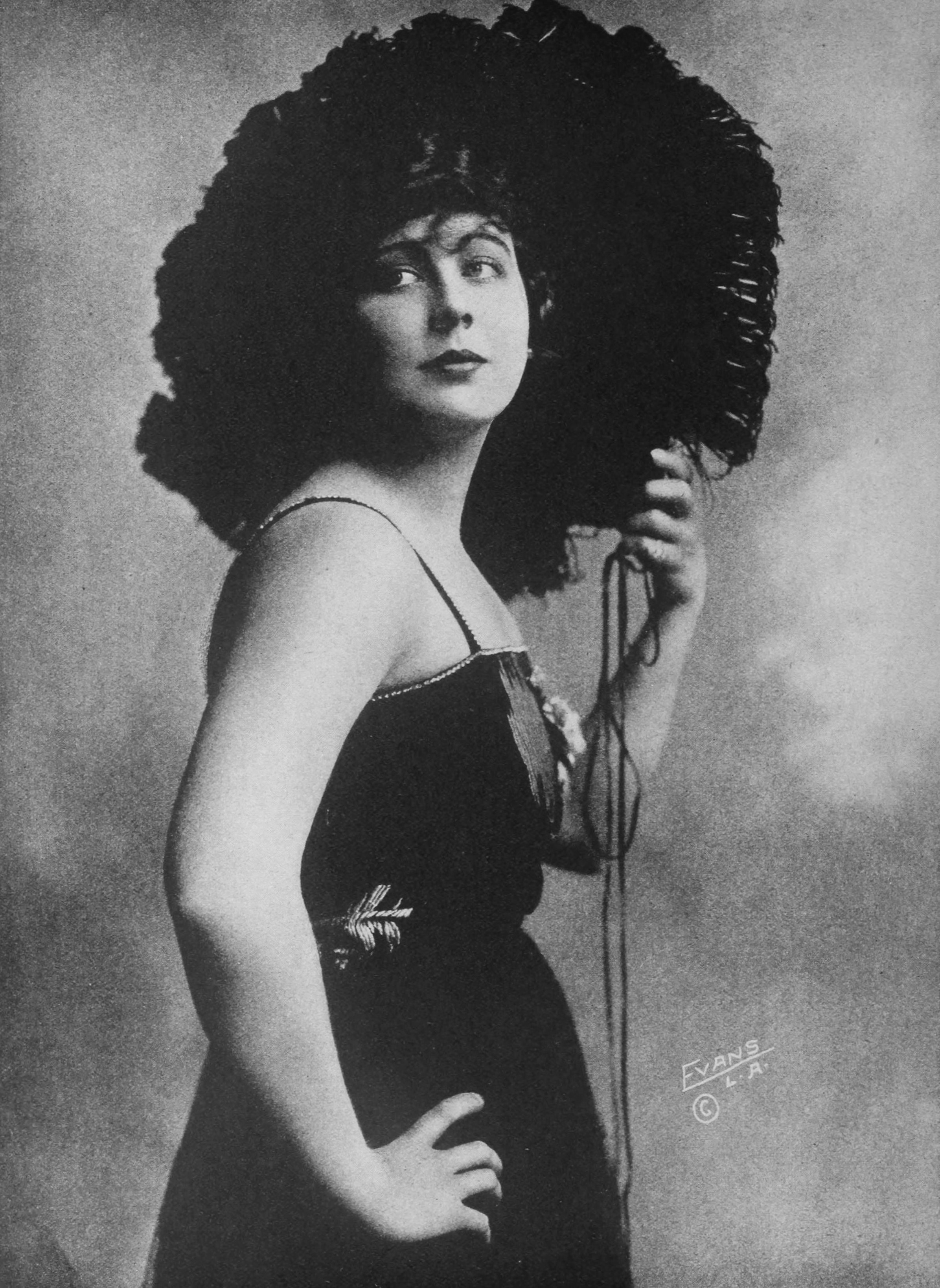 Dorothy Dalton in Photoplay, November 1918.